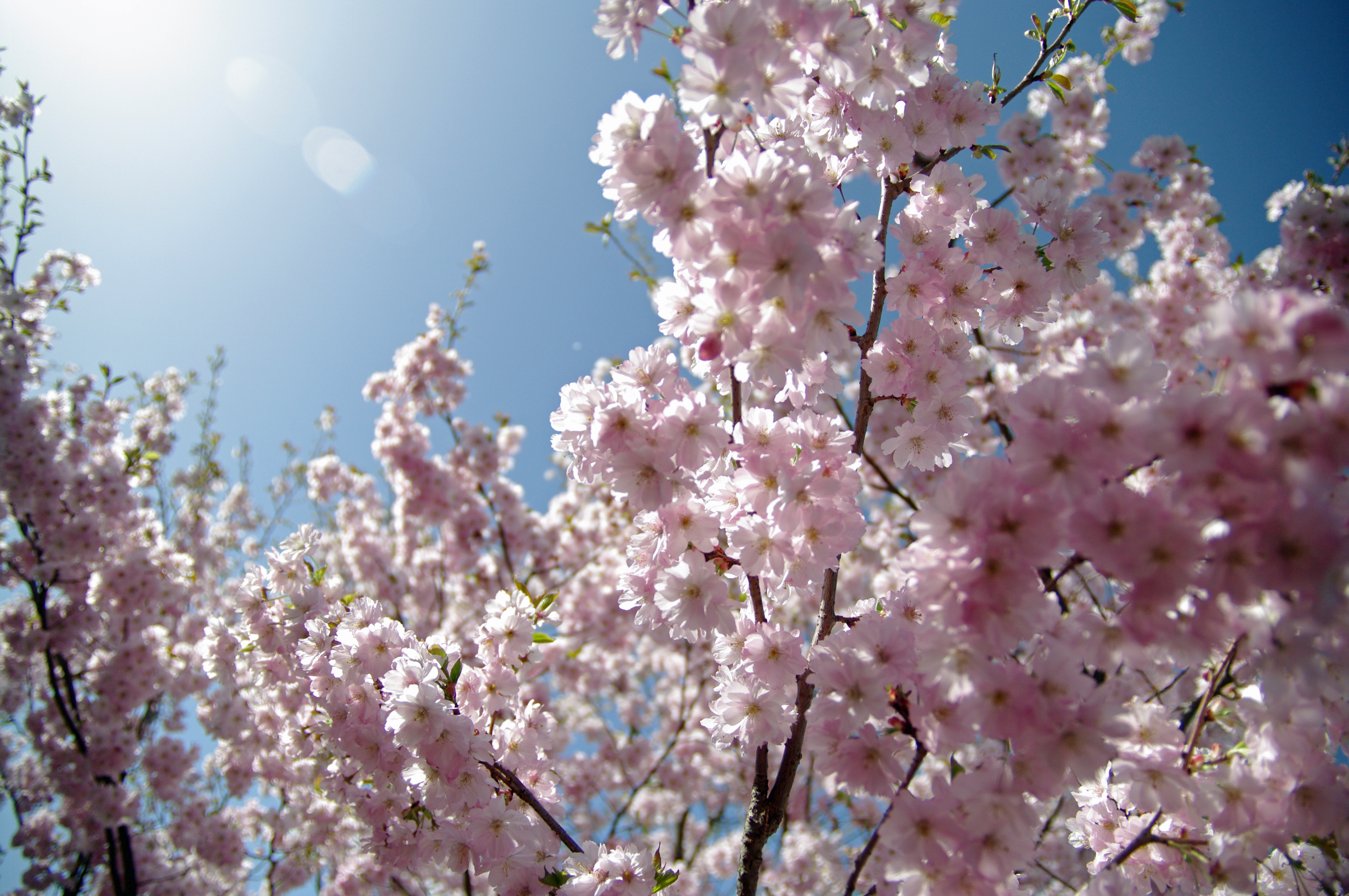 Bloominh cherry trees at the japanese garden at the Erholungspark Berlin-Marzahn.